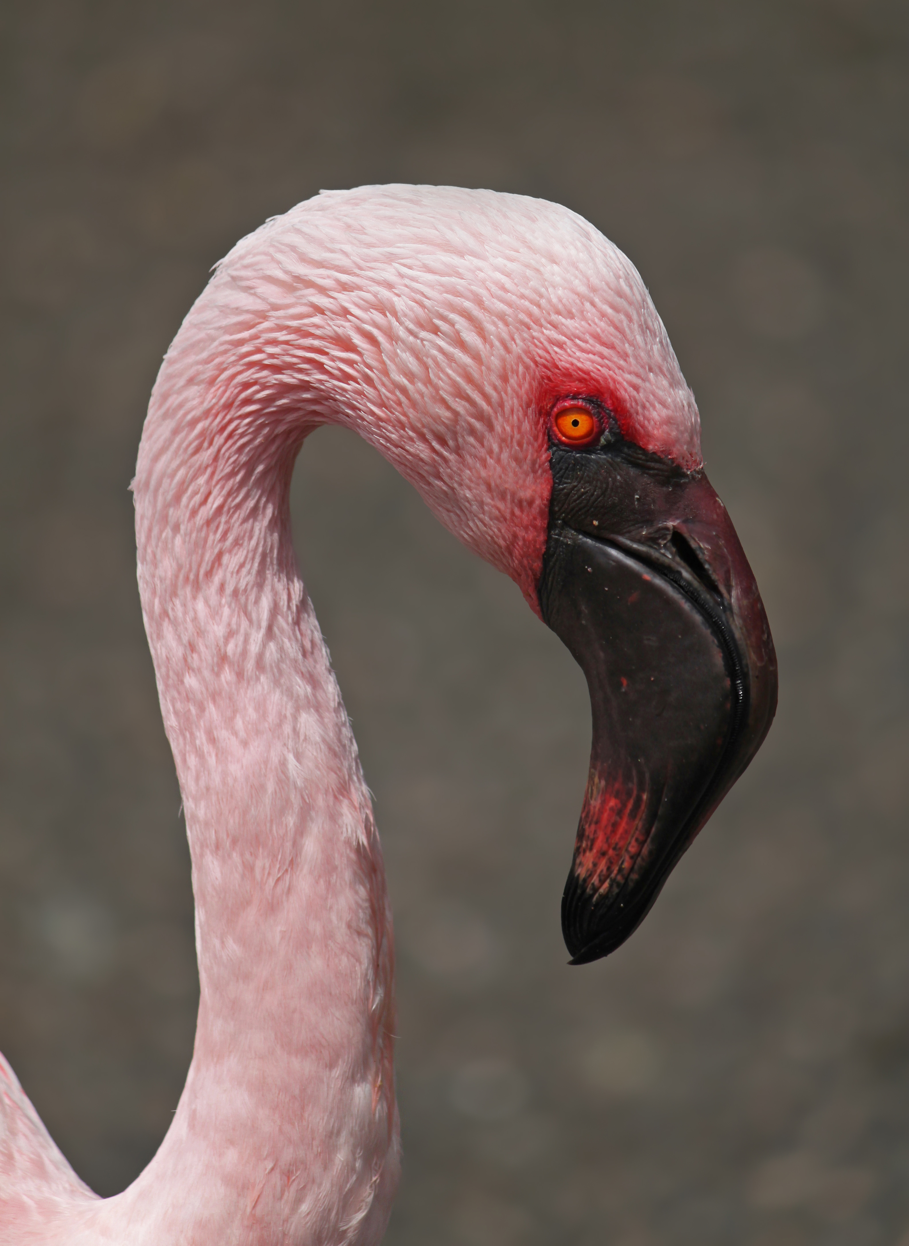 Lesser Flamingo; Guinate Tropical Park, Guinate, Lanzarote, Canary Islands, Spain.